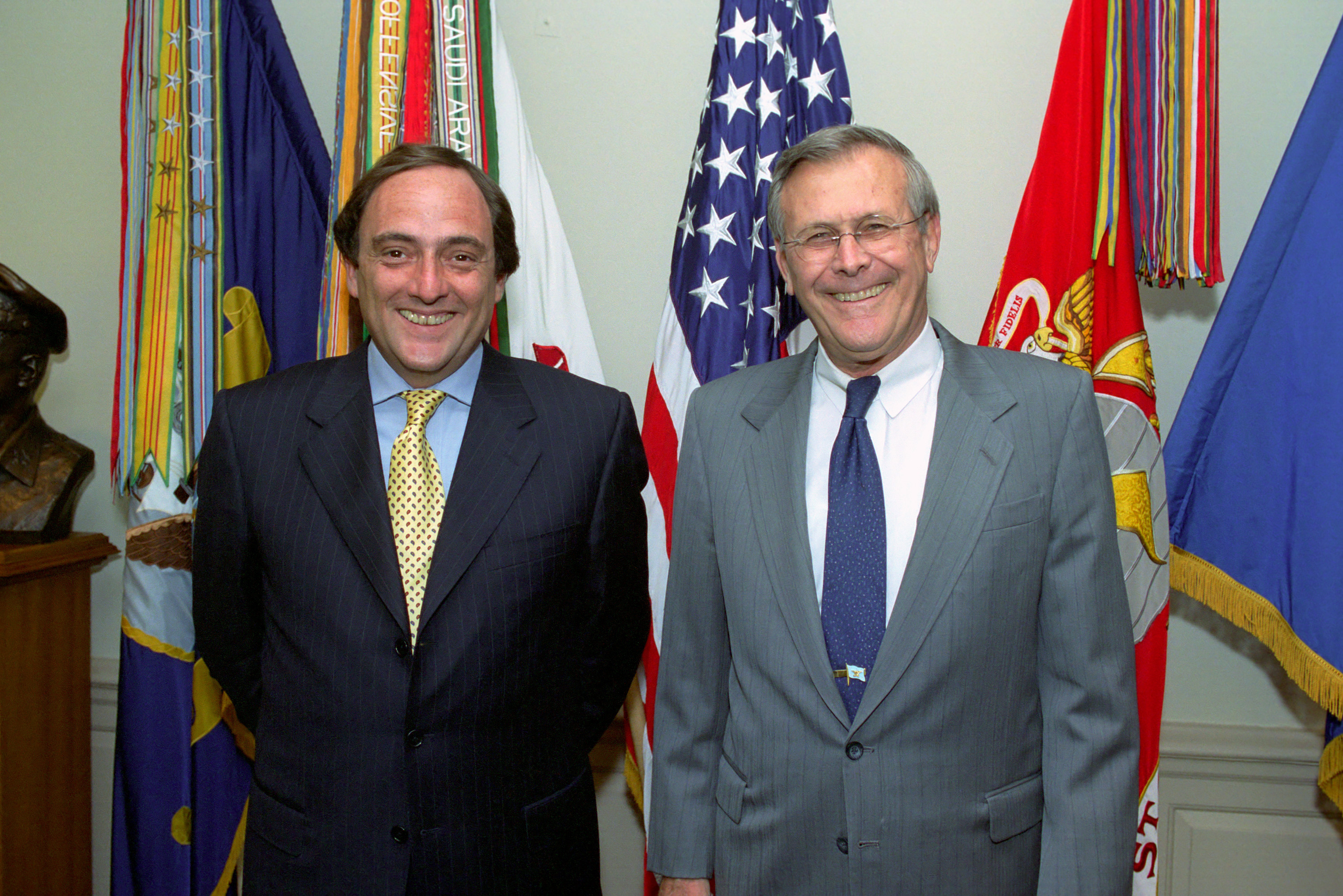 Portuguese Minister of Defense Paulo Portas (left), and U.S. Secretary of Defense The Honorable Donald H. Rumsfeld, pose for a photo during his visit at the Pentagon on June 18, 2002. OSD Package No. A07D-00310